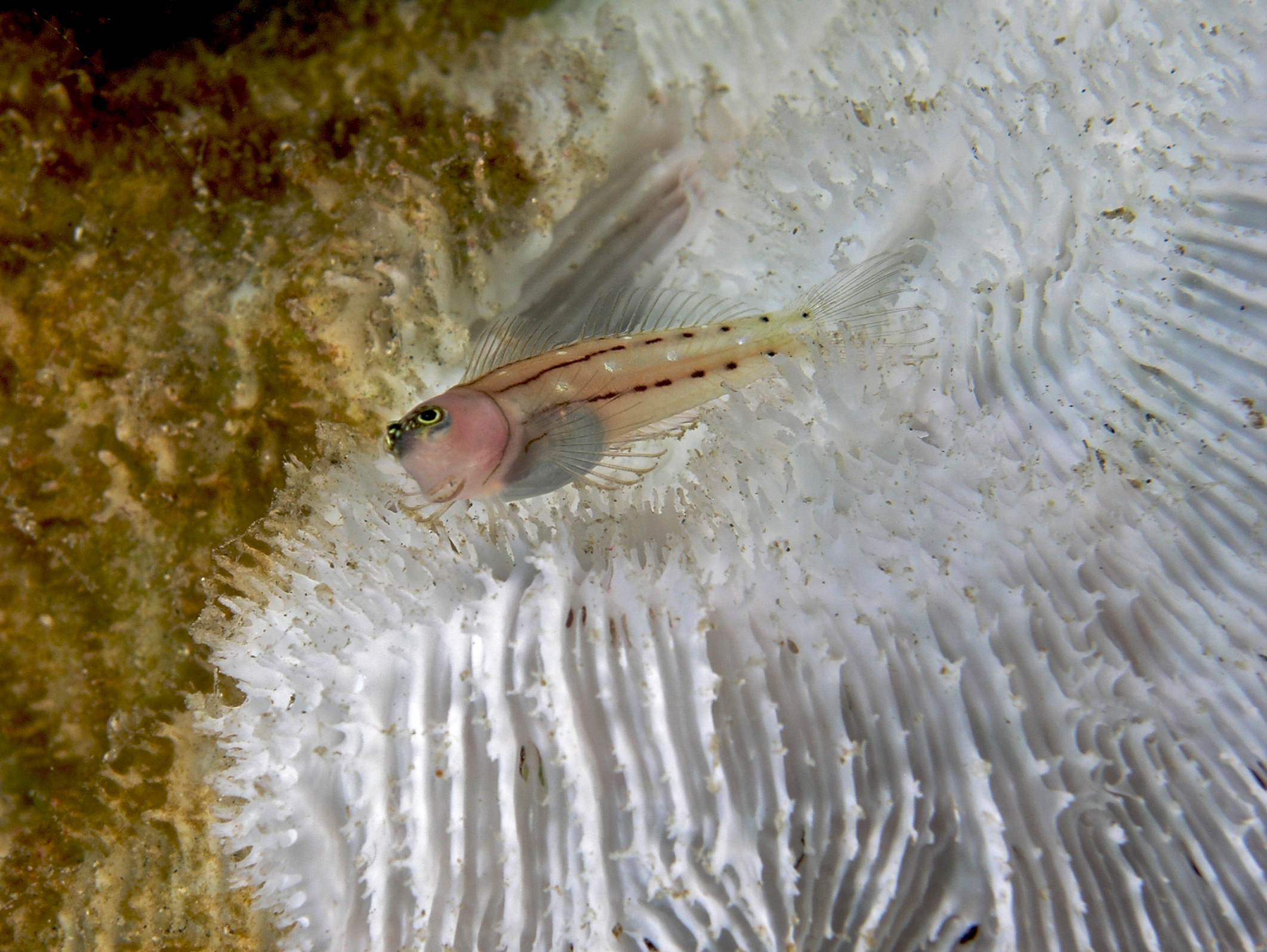 Ecsenius pictus ( White-lined blenny).